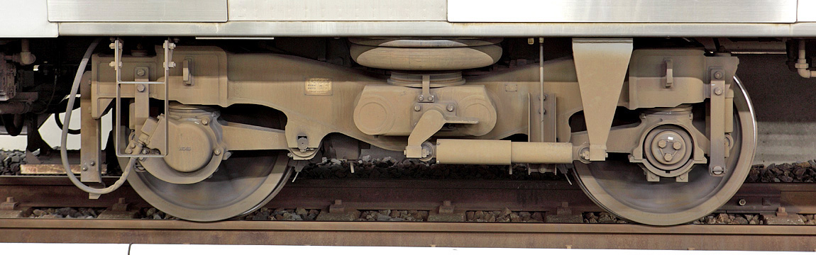 Type TR255 bogie truck of JR East E531 series EMU ( Moha E531-2007 ).